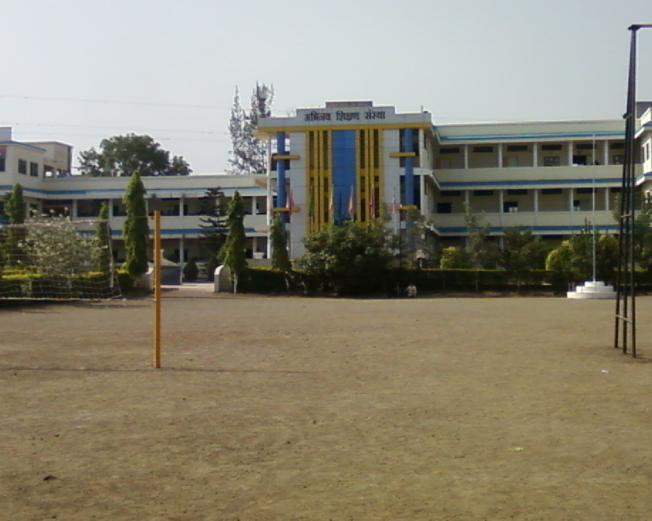 abhinav public school akole